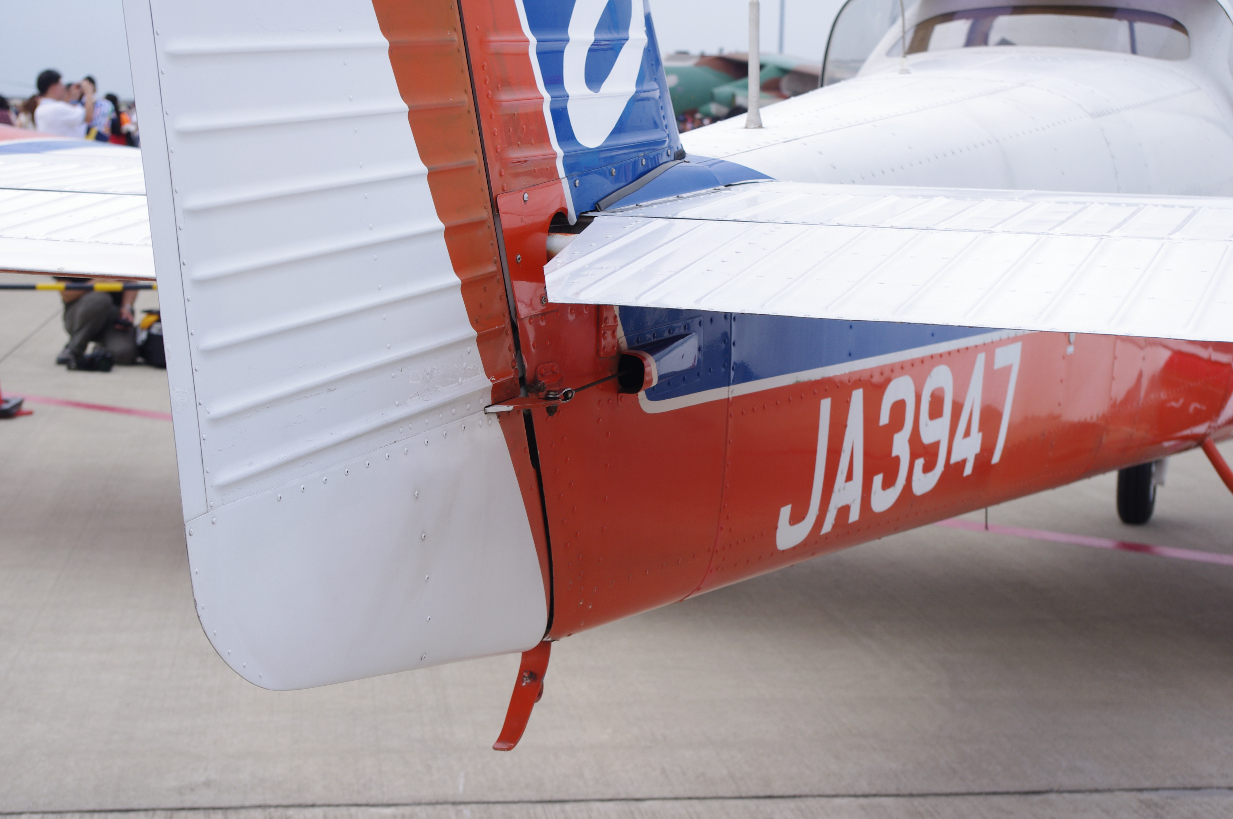 Taken at Centrair on 14 Oct 2012.